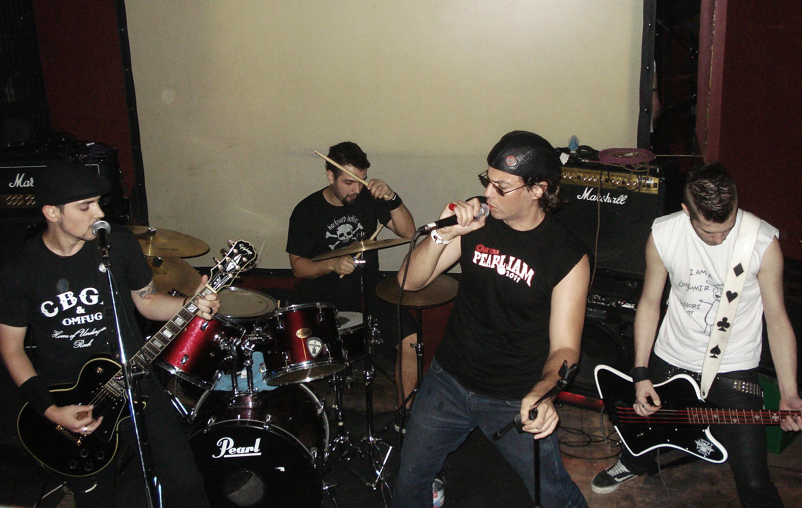 Presentando "Destinos Cruzados" a fines de 2012 en Capital Federal.